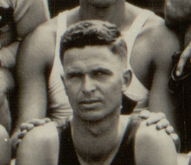 Cyril Stiles, New Zealand rower, at the 1932 Summer Olympics. Original photo from the Library of Congress of all rowing teams competing at the 1932 Olympics.